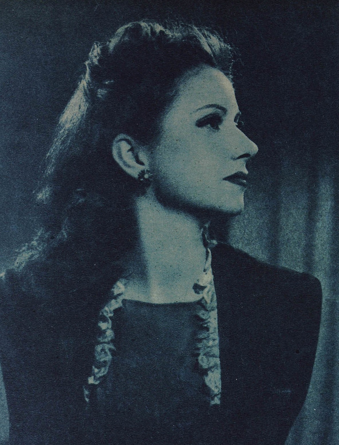 Spanish Actress Conchita Montes